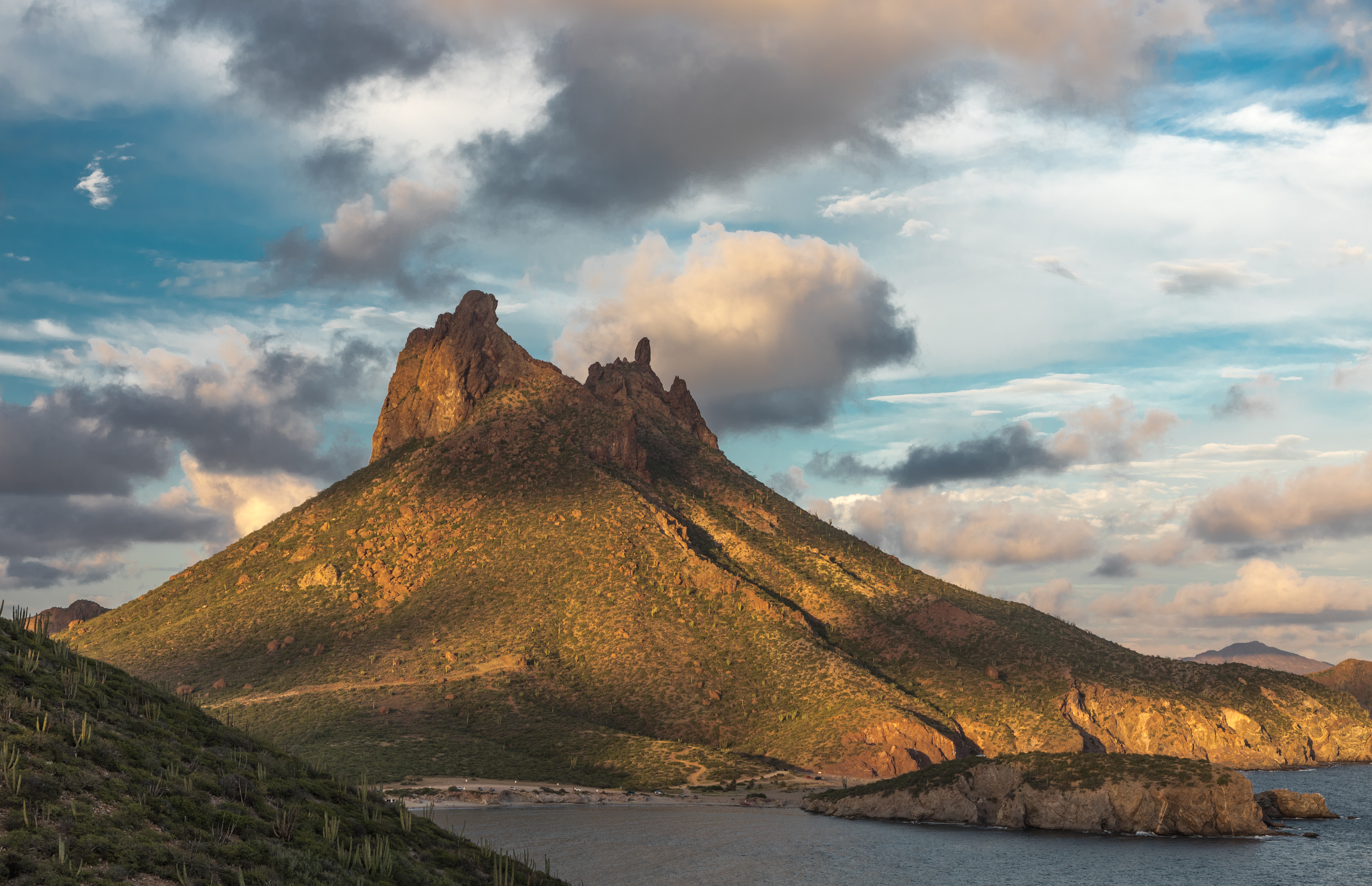 Tetakawi hill in San Carlos Sonora, Mexico.